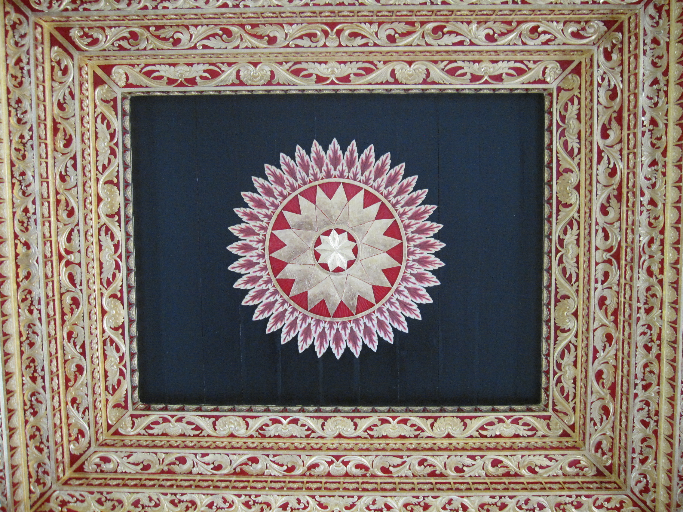 Kraton of Yogyakarta, Indonesia